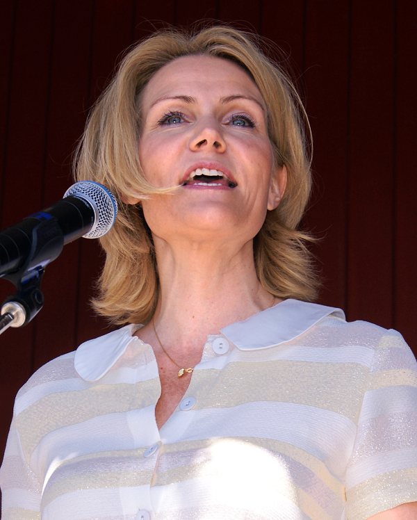 Helle Thorning-Schmidt, Danish politician from Socialdemokratiet